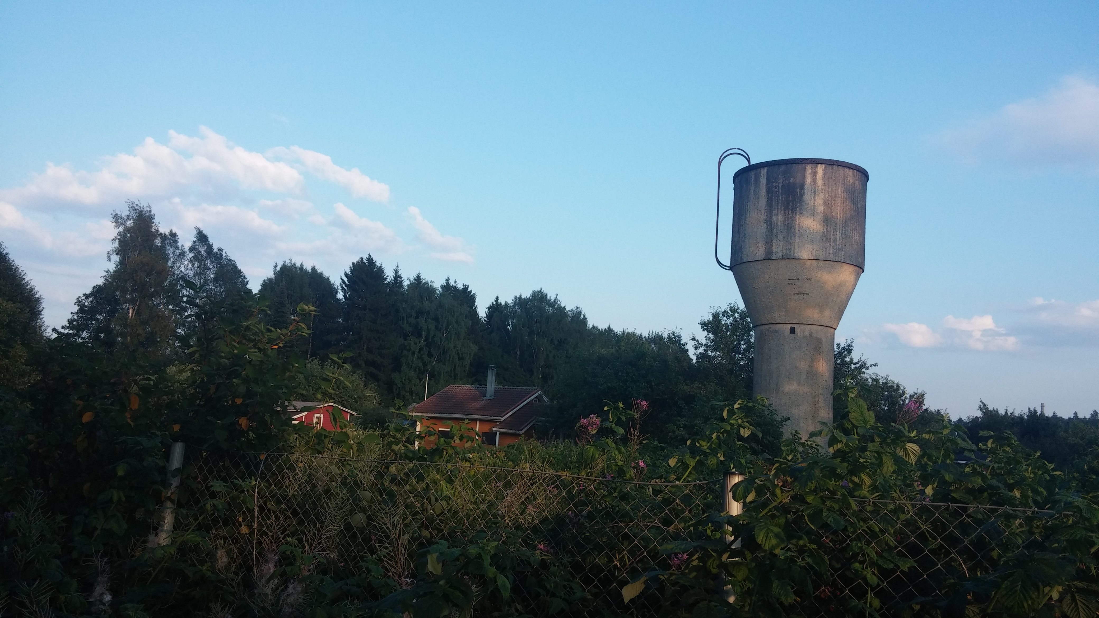 Oulunkylän siirtolapuutarha is an allotment garden in Helsinki, Finland.